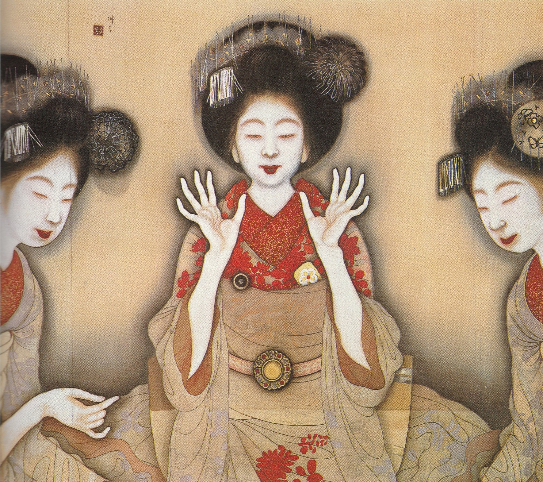 Okamoto Shinsō "Study of Three Maiko Playing Ken"